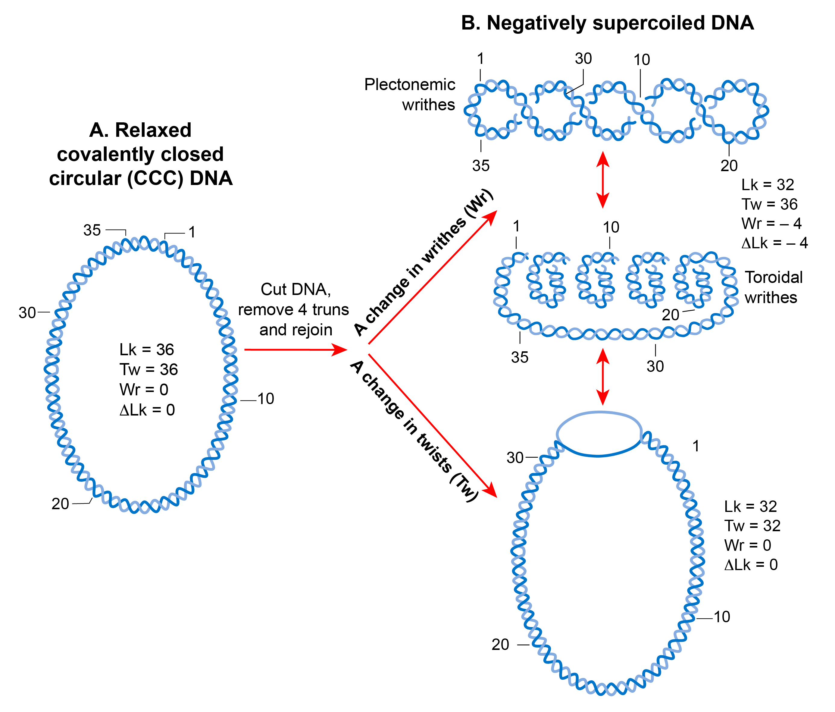 DNA supercoiling A. A linear double-stranded DNA becomes a topologically constrained molecule if the two ends are covalently joined, forming a circle. Rules of DNA topology are explained using such a molecule (ccc-DNA) in which a numerical parameter called the linking number (Lk) defines the topology. Lk is a mathematical sum of two geometric parameters, twist (Tw) and writhe (Wr). A twist is the crossing of two strands, and writhe is coiling of the DNA double helix on its axis that requires bending. Lk is always an integer and remains invariant no matter how much the two strands are deformed. It can only be changed by introducing a break in one or both DNA strands by DNA metabolic enzymes called topoisomerases. B. A torsional strain created by a change in Lk of a relaxed, topologically constrained DNA manifests in the form of DNA supercoiling. A decrease in Lk (Lk Lk0) induces positive supercoiling. Only negative supercoiling is depicted here. For example, if a cut is introduced into a ccc-DNA and four turns are removed before rejoining the two strands, the DNA becomes negatively supercoiled with a decrease in the number of twists or writhe or both. Writhe can adopt two types of geometric structures called plectoneme and toroid. Plectonemes are characterized by the interwinding of the DNA double helix and an apical loop, whereas spiraling of DNA double helix around an axis forms toroids.